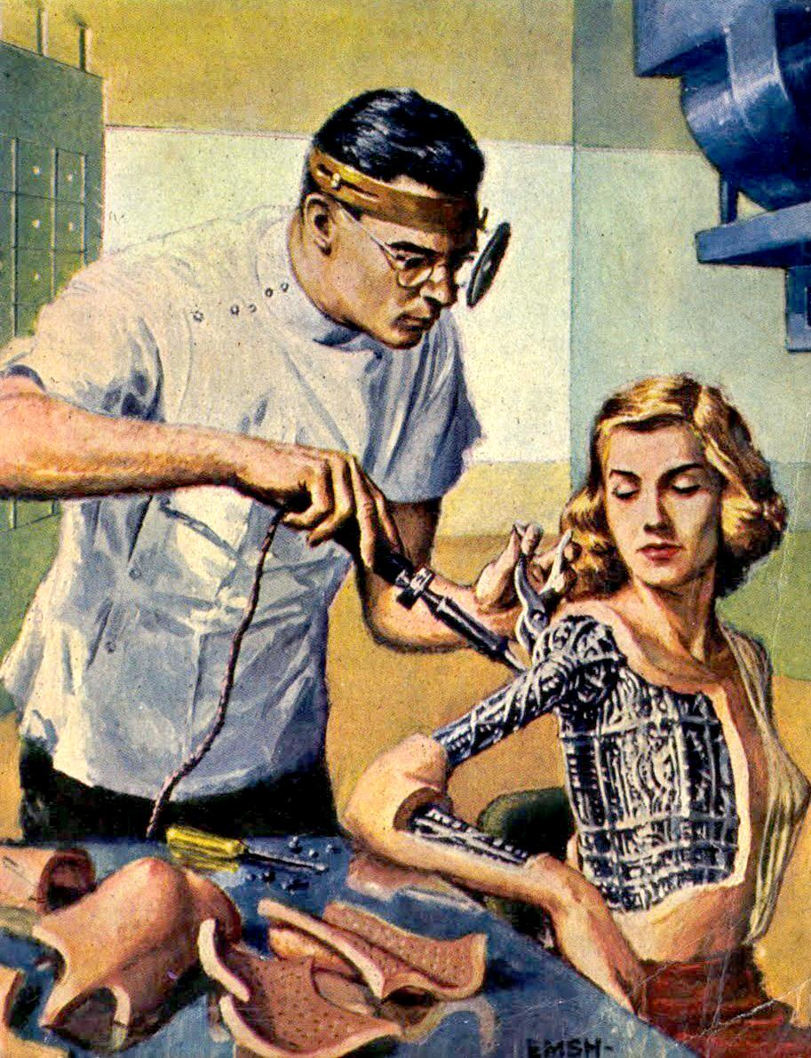 Android woman (Galaxy, September, 1954, illustration)